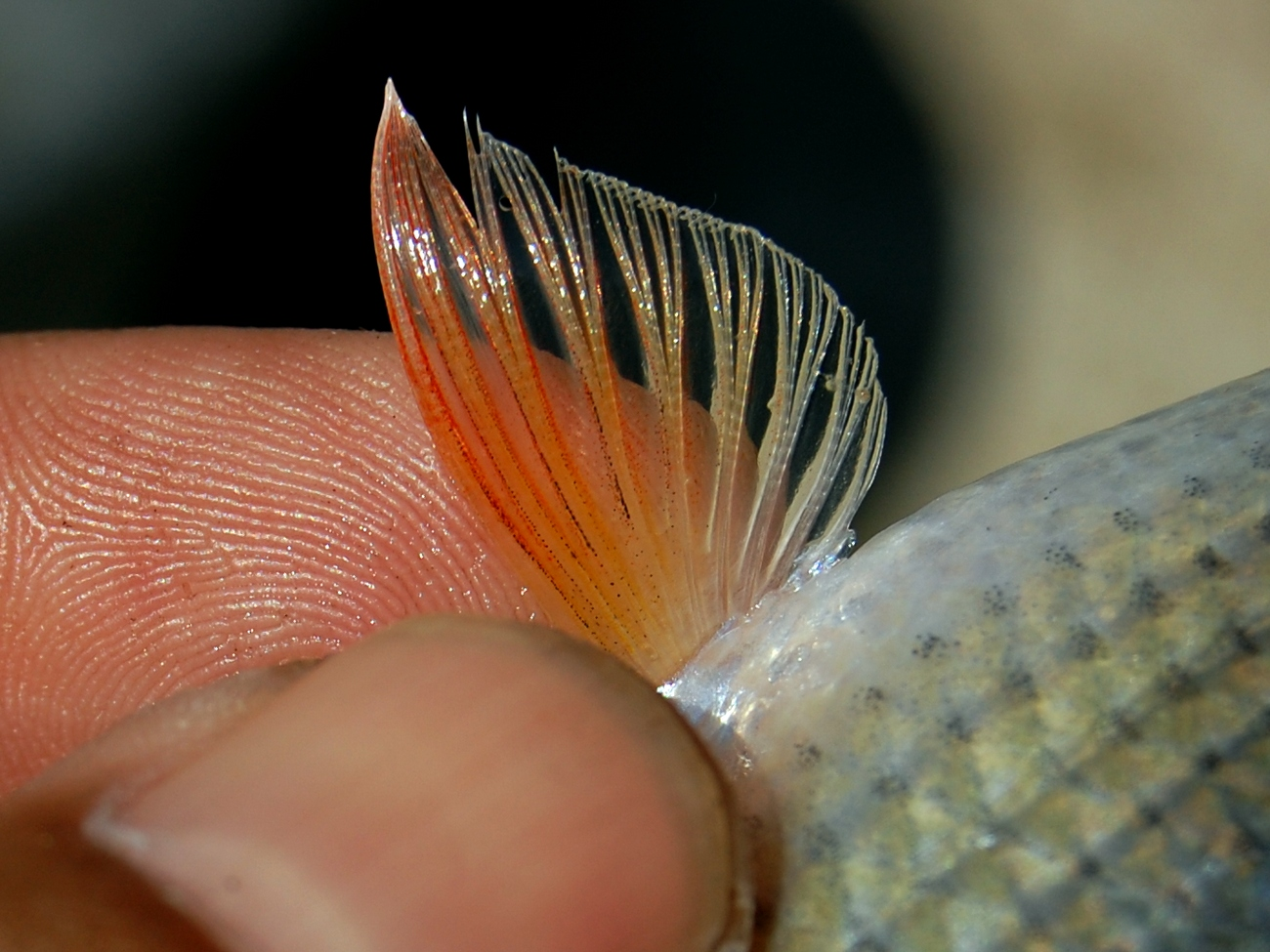 Above: Labiobarbus leptocheilus, 105 mm SL (standard length), pelvic fin. From Kebumen, Central Java, Indonesia.